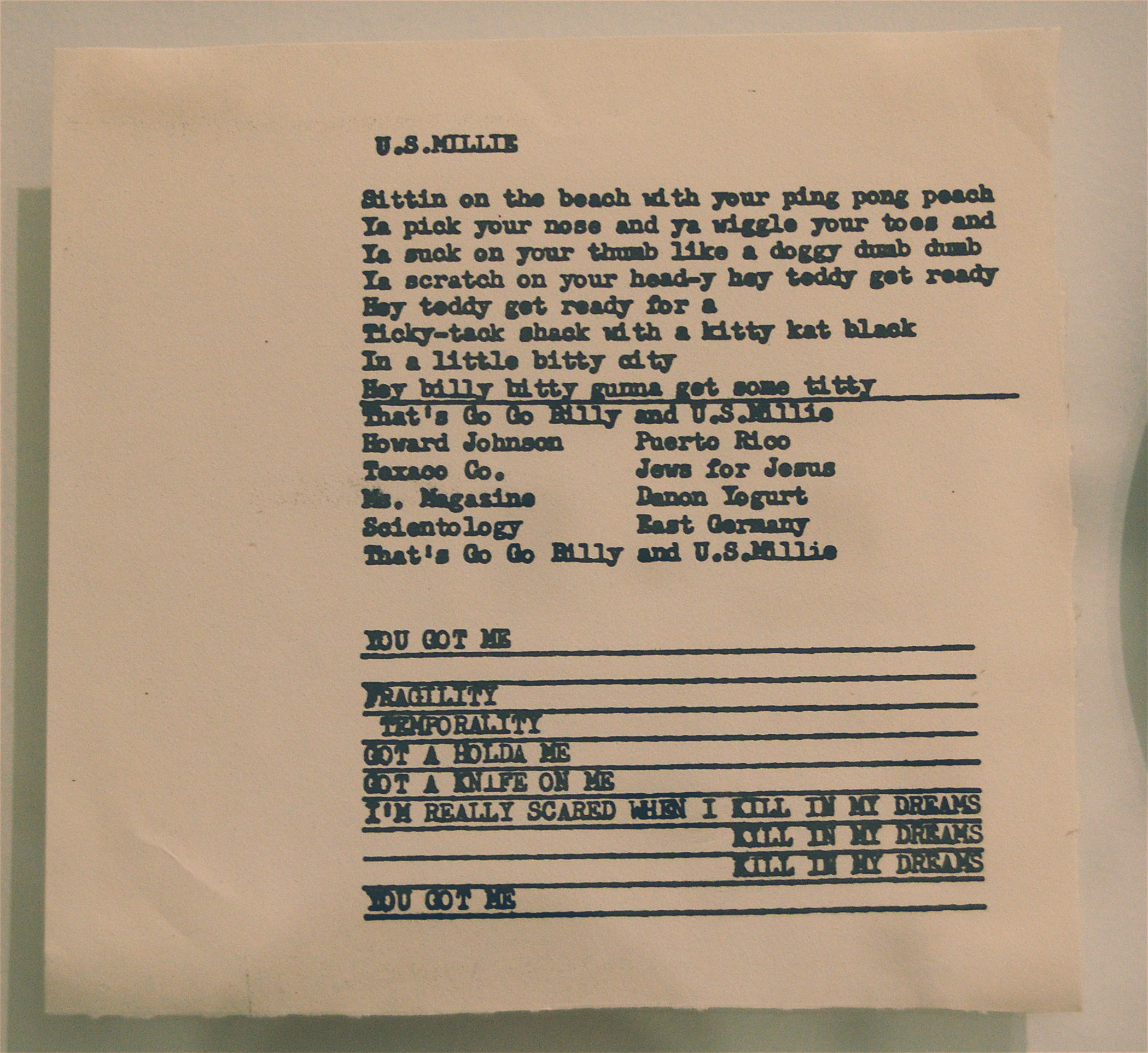 Theoretical Girls, [Detail of] "U.S. Mille" b/w "You Got Me" (7-inch), 1978 The Pictures Generation, 1974-1984, at The Metropolitan Museum of Art